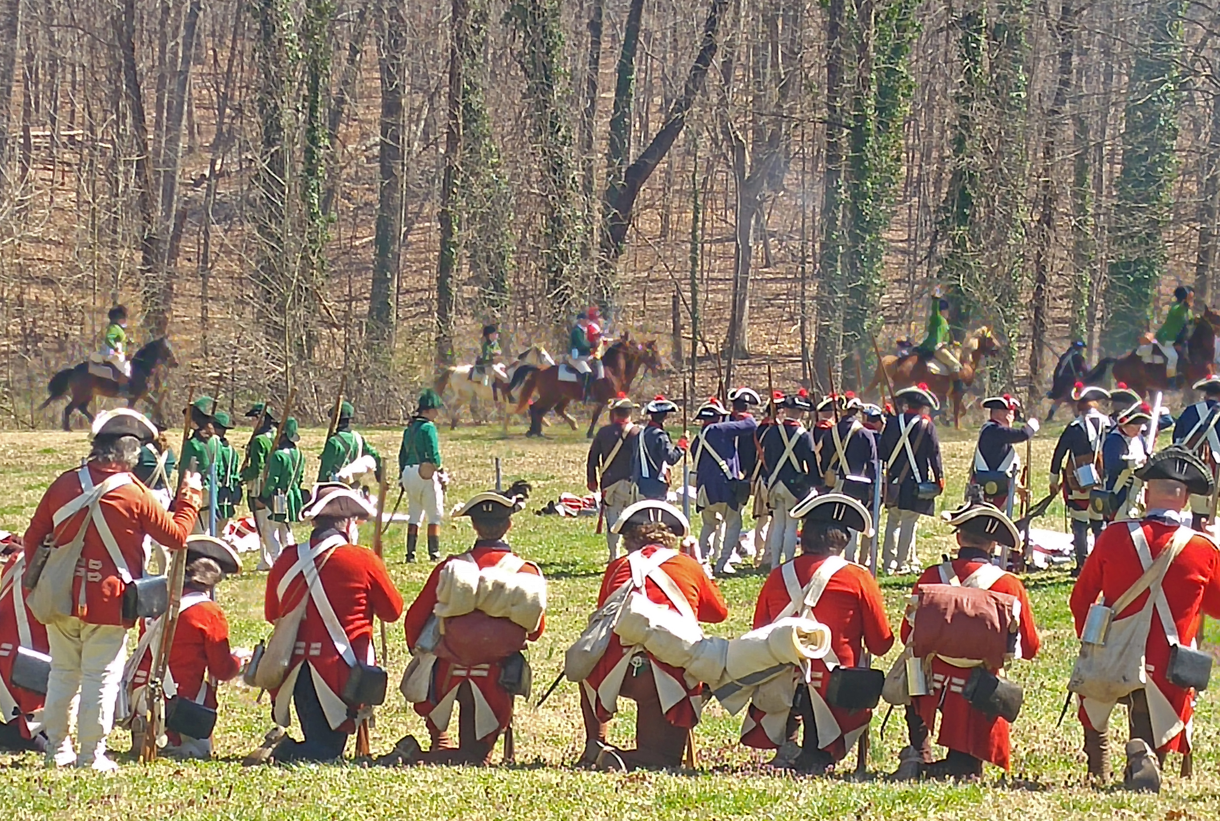 2019 reenactment of the Battle of Guilford Courthouse, which was fought on March 15, 1781